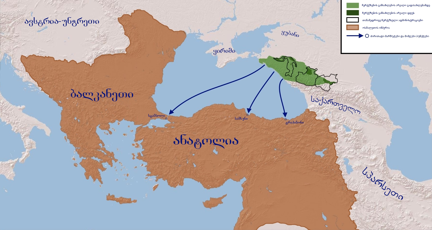 map shows the routes which were used to resettle circassians to ottoman empire. in Georgian Language